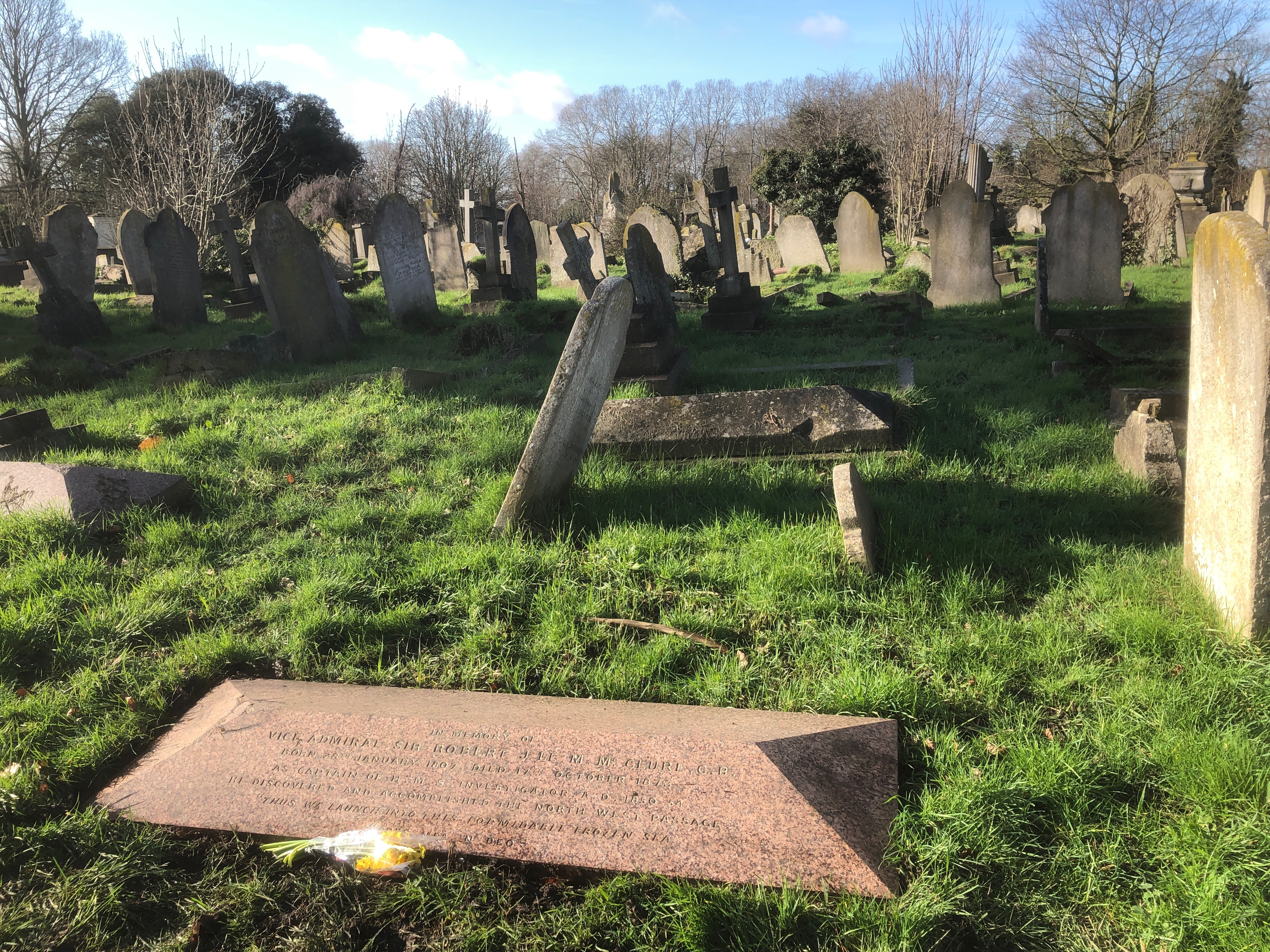 Robert McClure (1807 - 1873) was the discoverer of the Northwest Passage, linking the Pacific and Atlantic Oceans; his grave is in Area 10 of Kensal Green Cemetery in Northwest London.